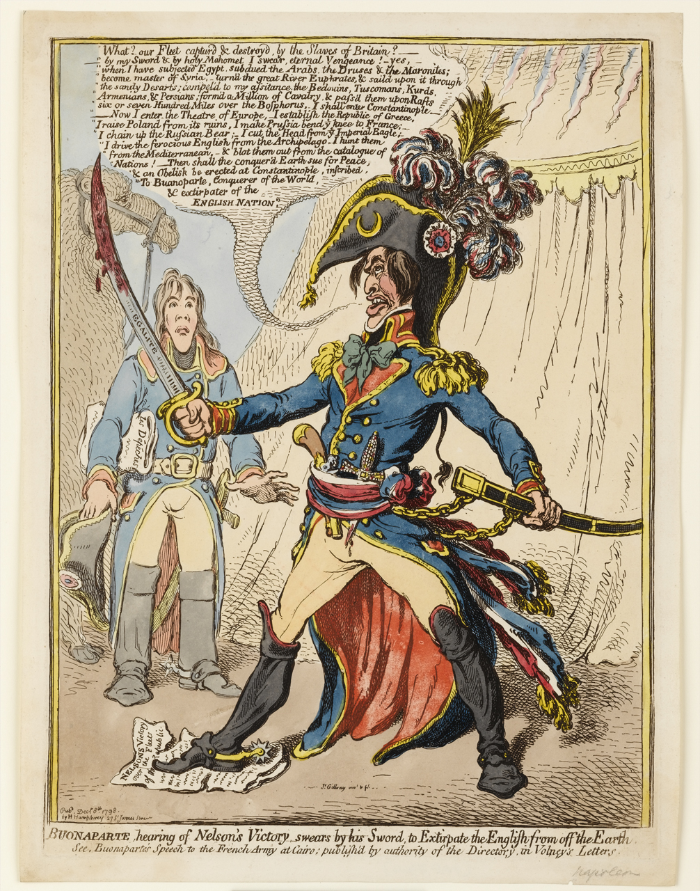 [Napoleon raging at the news of Nelson's destruction of the french Fleet at the Battle of the Nile]